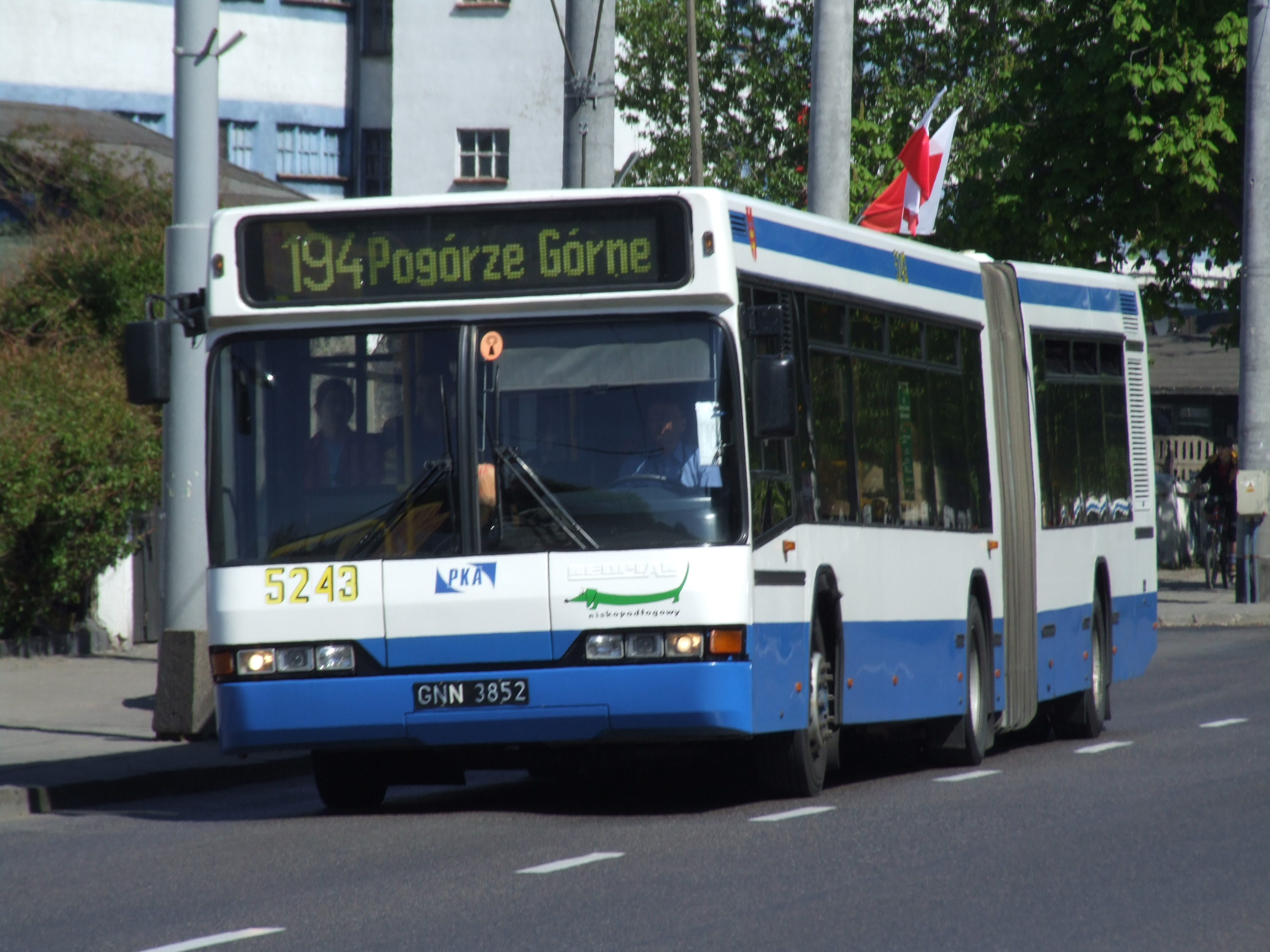 Neoplan N4021td bus (#5243) in Gdynia, Poland. Built 1998, PKA Gdynia operator.